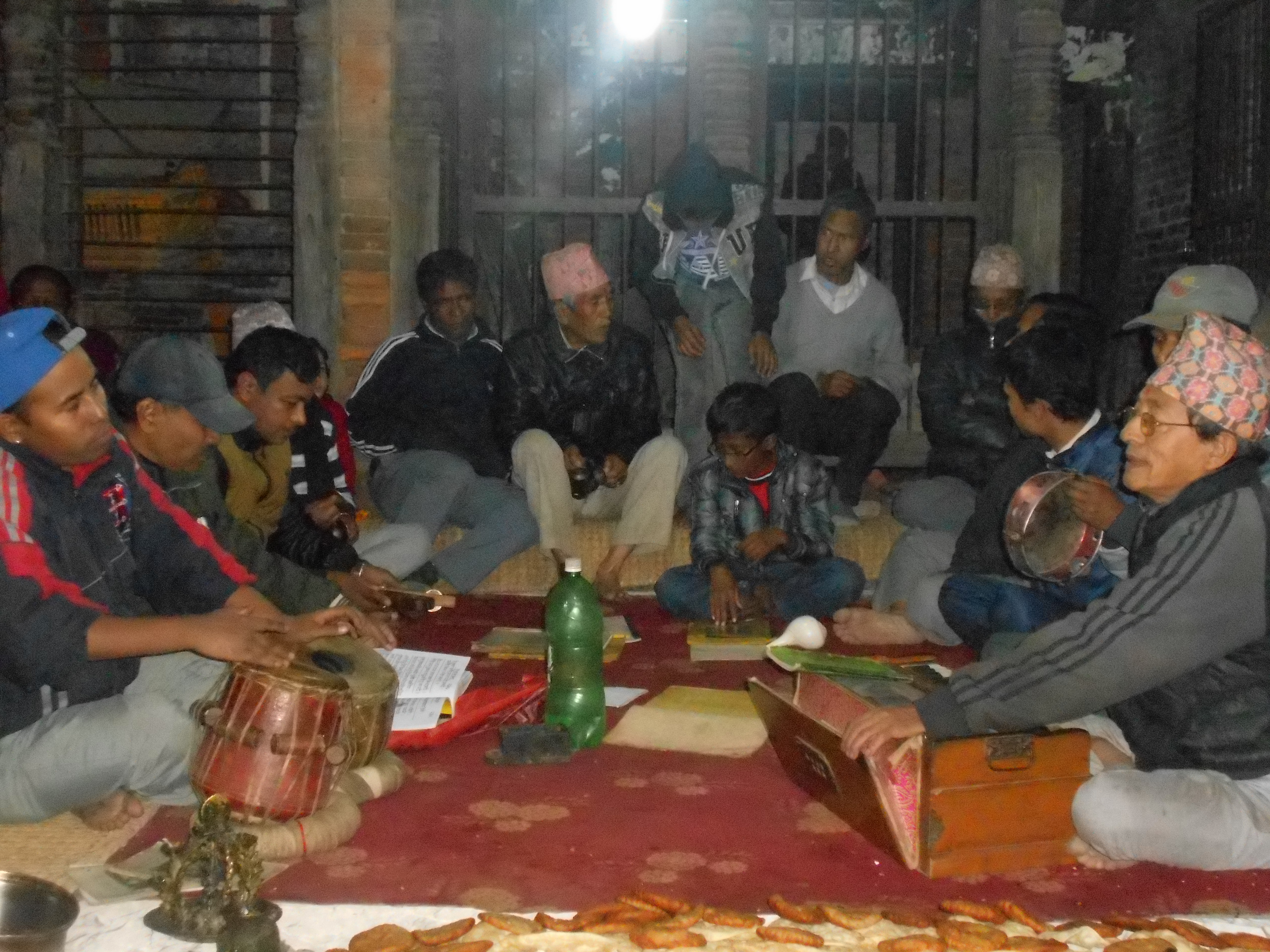 Local celebration during the Newar festival Sakimana Punhi